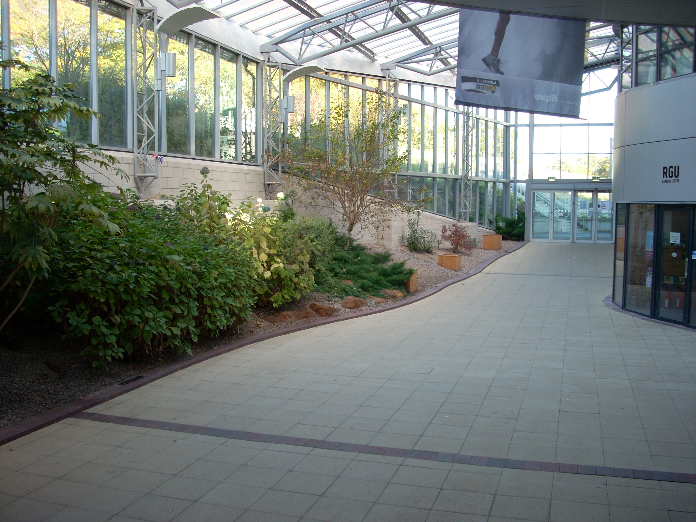 Winter garden on lower level of RGU SPORT, showing "University Street" passing through. This building acts as the campus sports centre of the Robert Gordon University, Aberdeen, UK